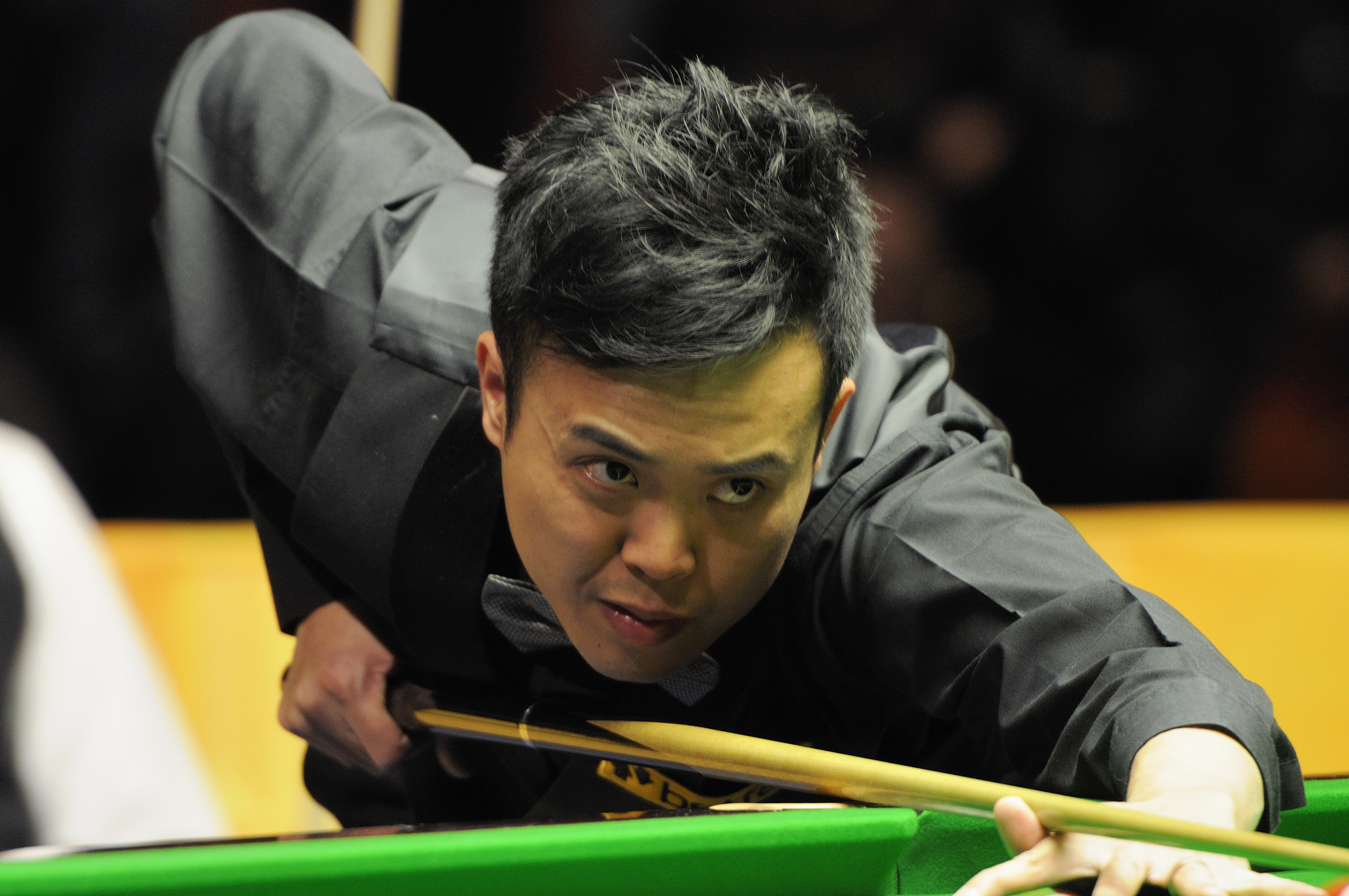 Picture taken in Berlin during the Snooker German Masters in 2013. Marco Fu.